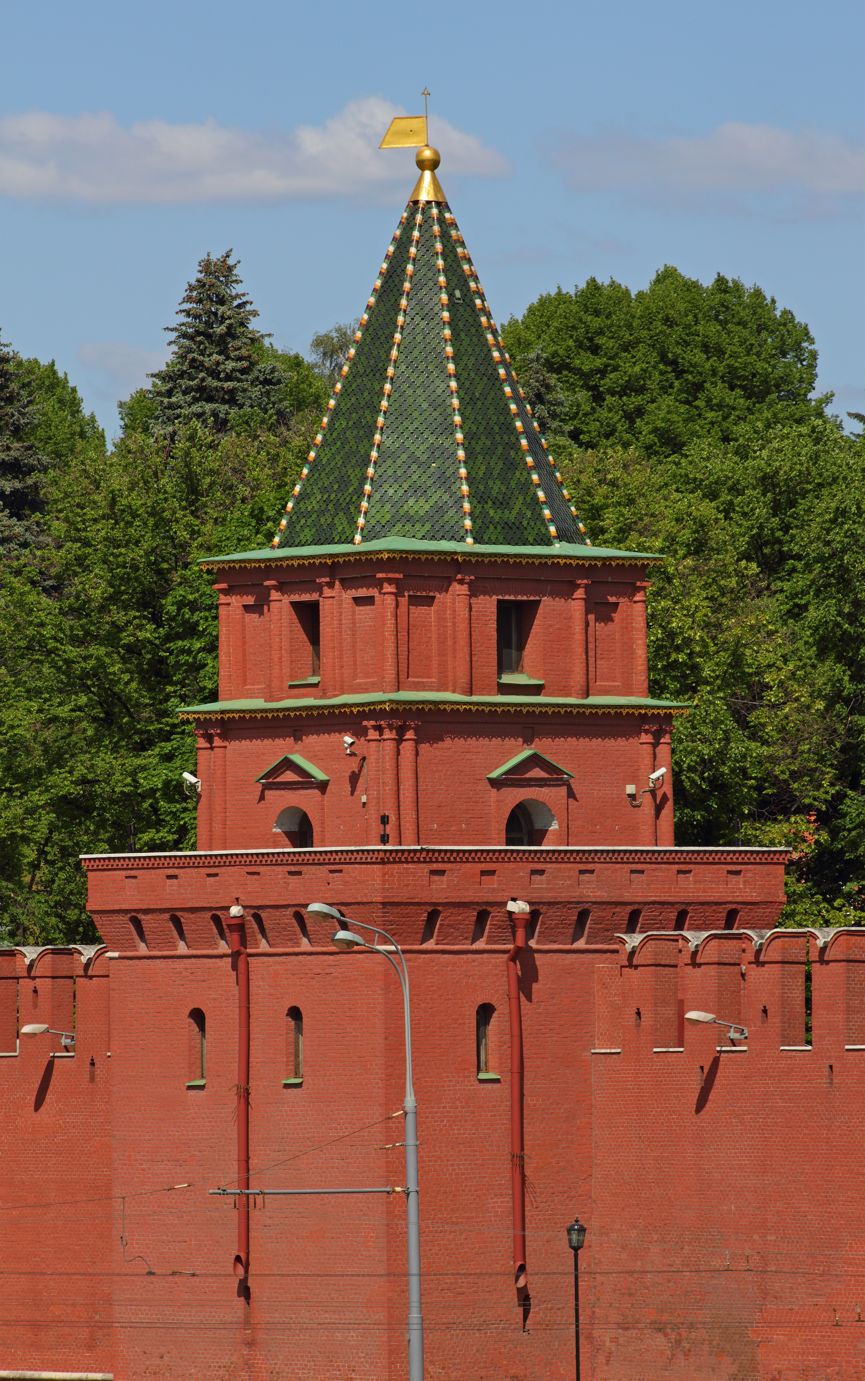 Moscow, Russia. Petrovskaya (Peter) Tower of the Moscow Kremlin.